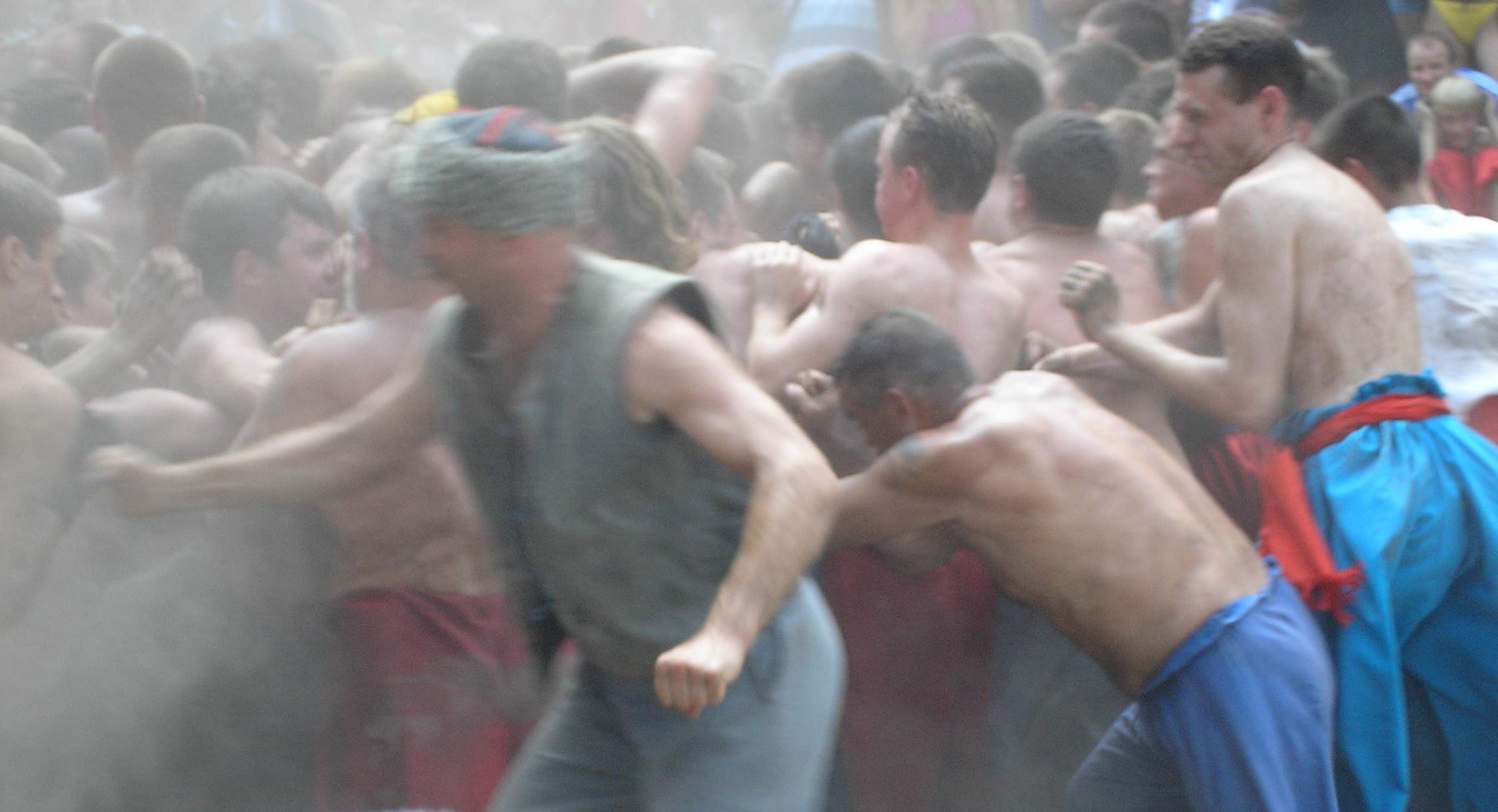 Zaporizhya. Island Khortytsya. Cossacks festival. Cossacks combat. 2005 Summer